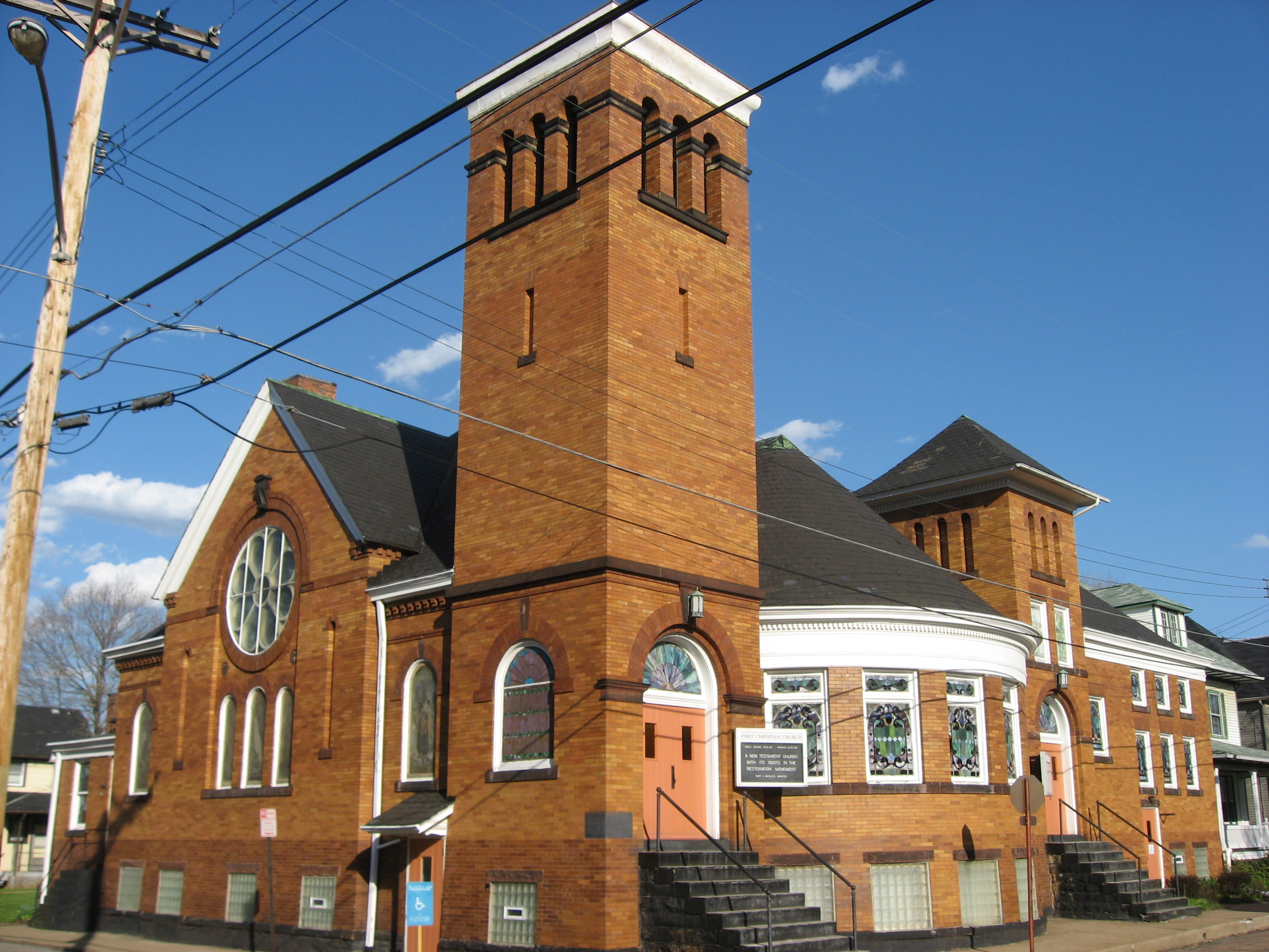 First Church of Christ, located at 360 Iroquois Place in Beaver, Pennsylvania, United States. Built in 1902, the Romanesque Revival church is located within the Beaver Historic District, which is listed on the National Register of Historic Places. Church website.